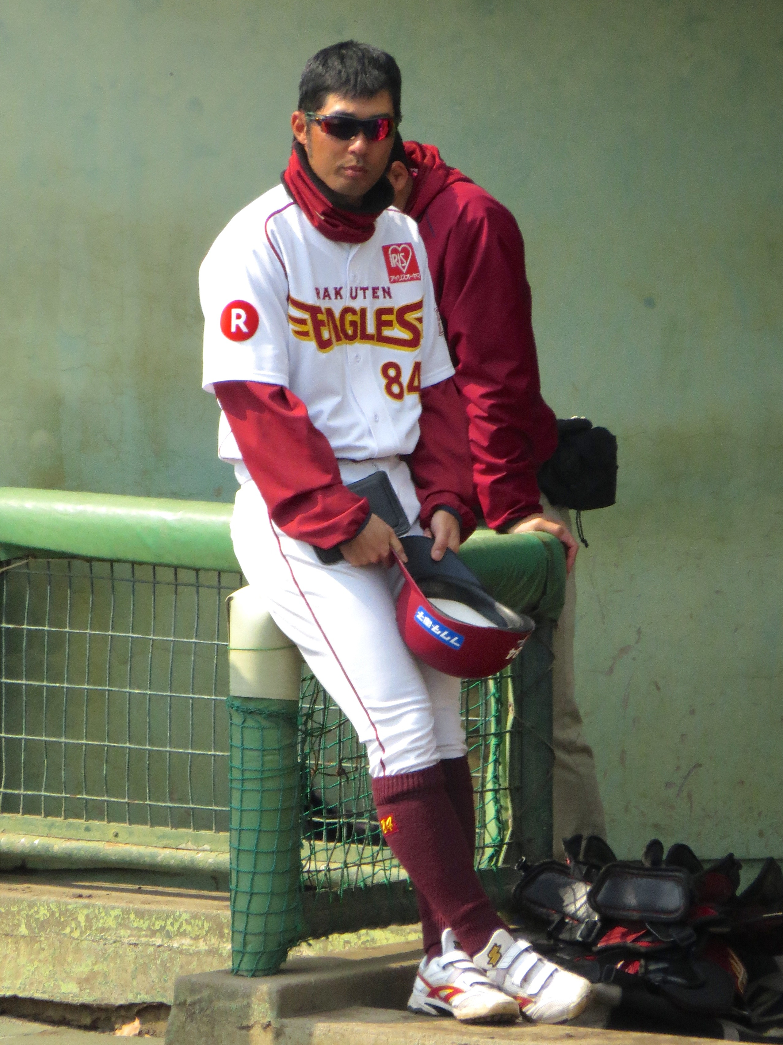 Makoto Moriyama, coach of the Tohoku Rakuten Golden Eagles, at Saitama Municipal Urawa Baseball Stadium